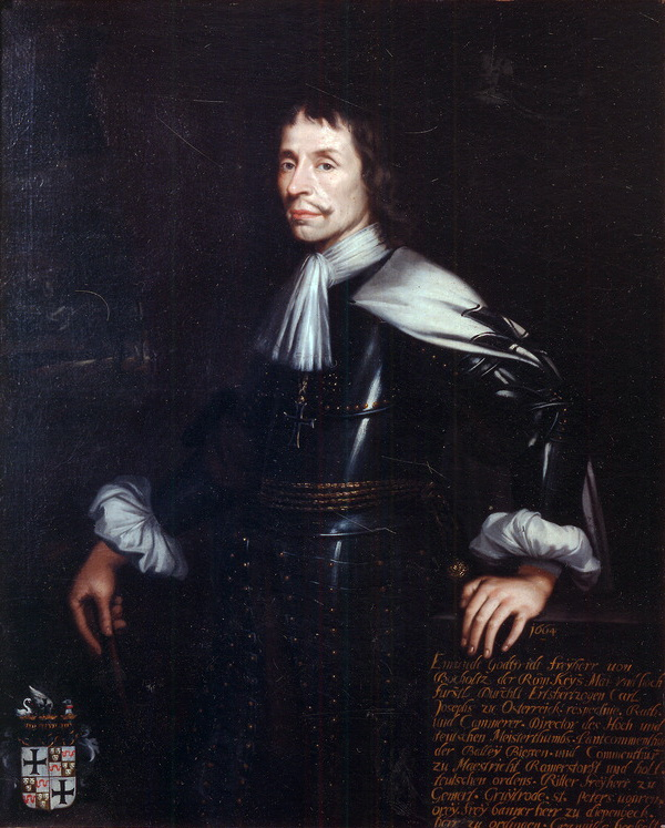 Walthère Damery, Portrait of Godefroid of Bocholtz, commander of the Teutonic Knights in Aldenbiesen and Nieuwen Biesen (1664). Currently in the collections of the Musées Royaux des Beaux-Arts de Belgique, Brussels, Belgium.